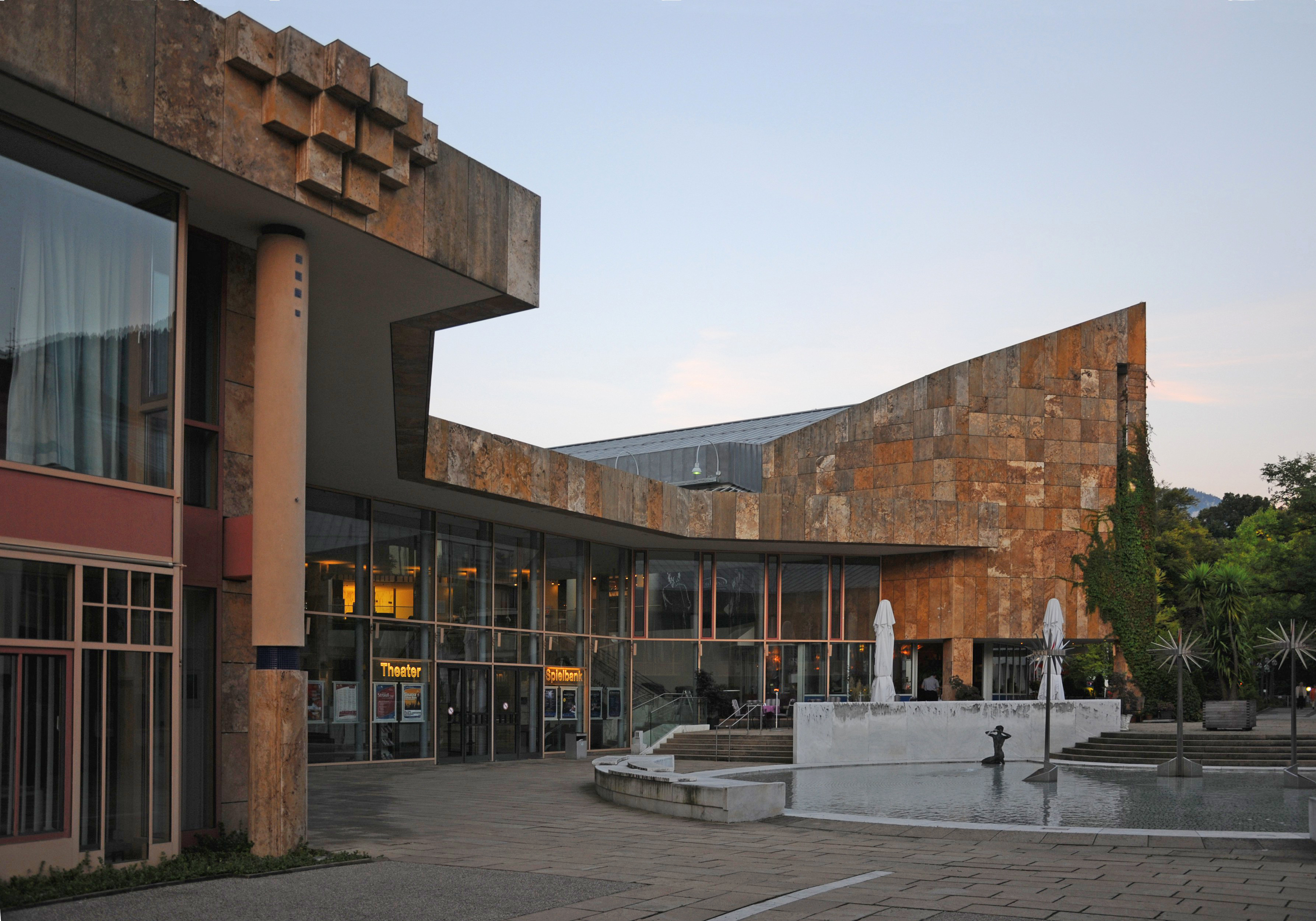 Theatre and casino of Bad Reichenhall in the evening